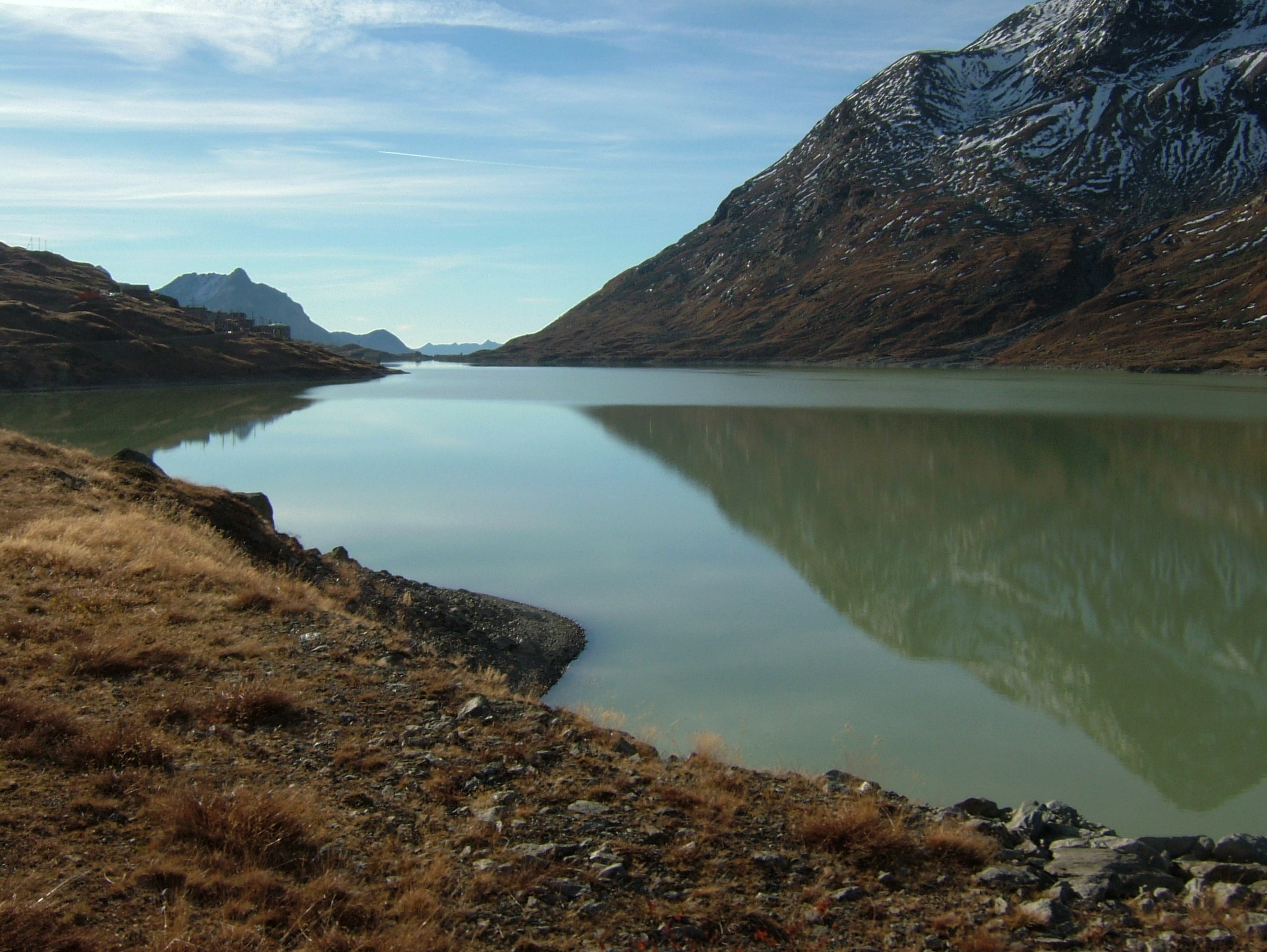 Bernina railwayDeployment between Morteratsch and Bernina Pass with Lago Bianco (White Lake)